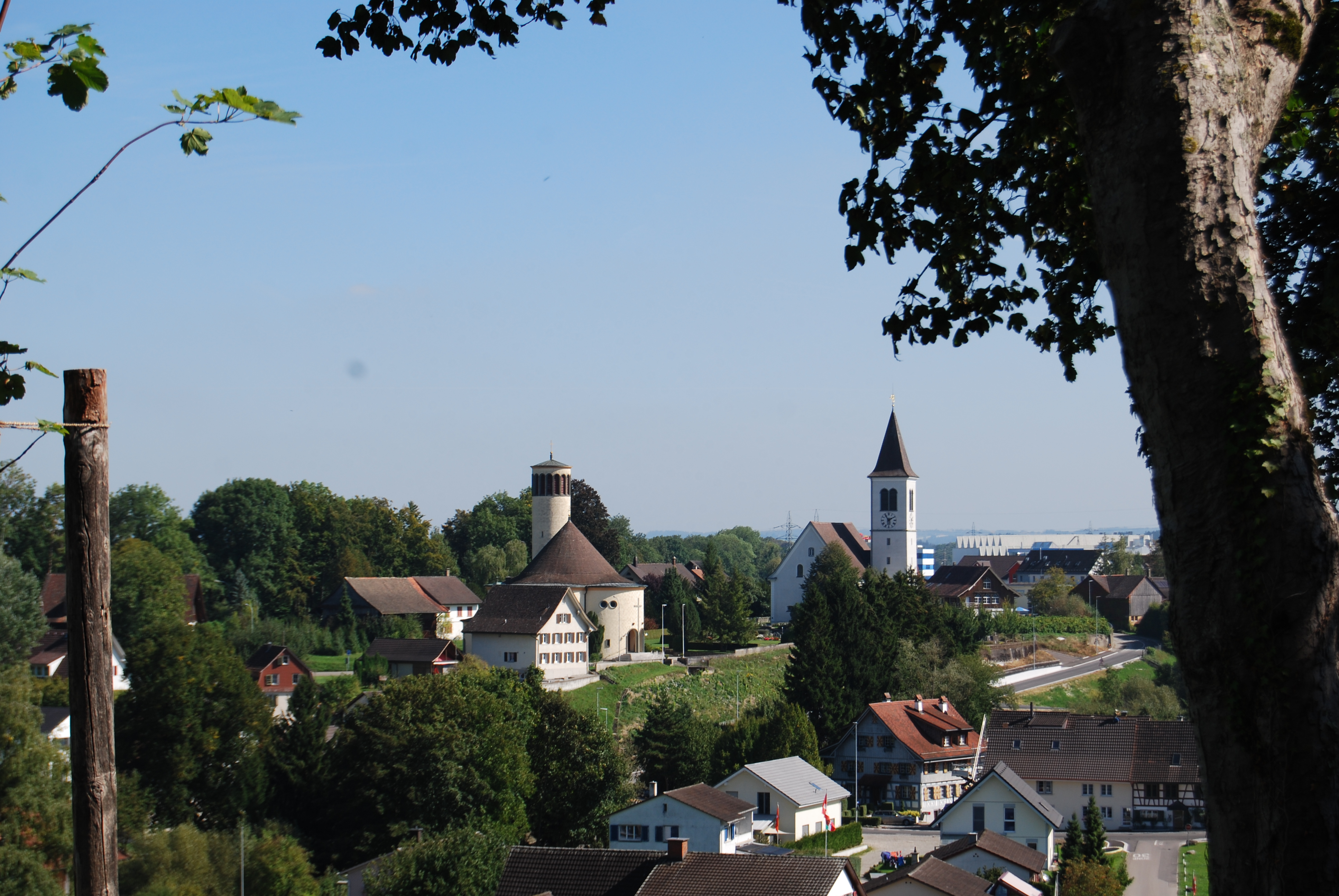 Bussnang, canton of Thurgovia, Switzerland